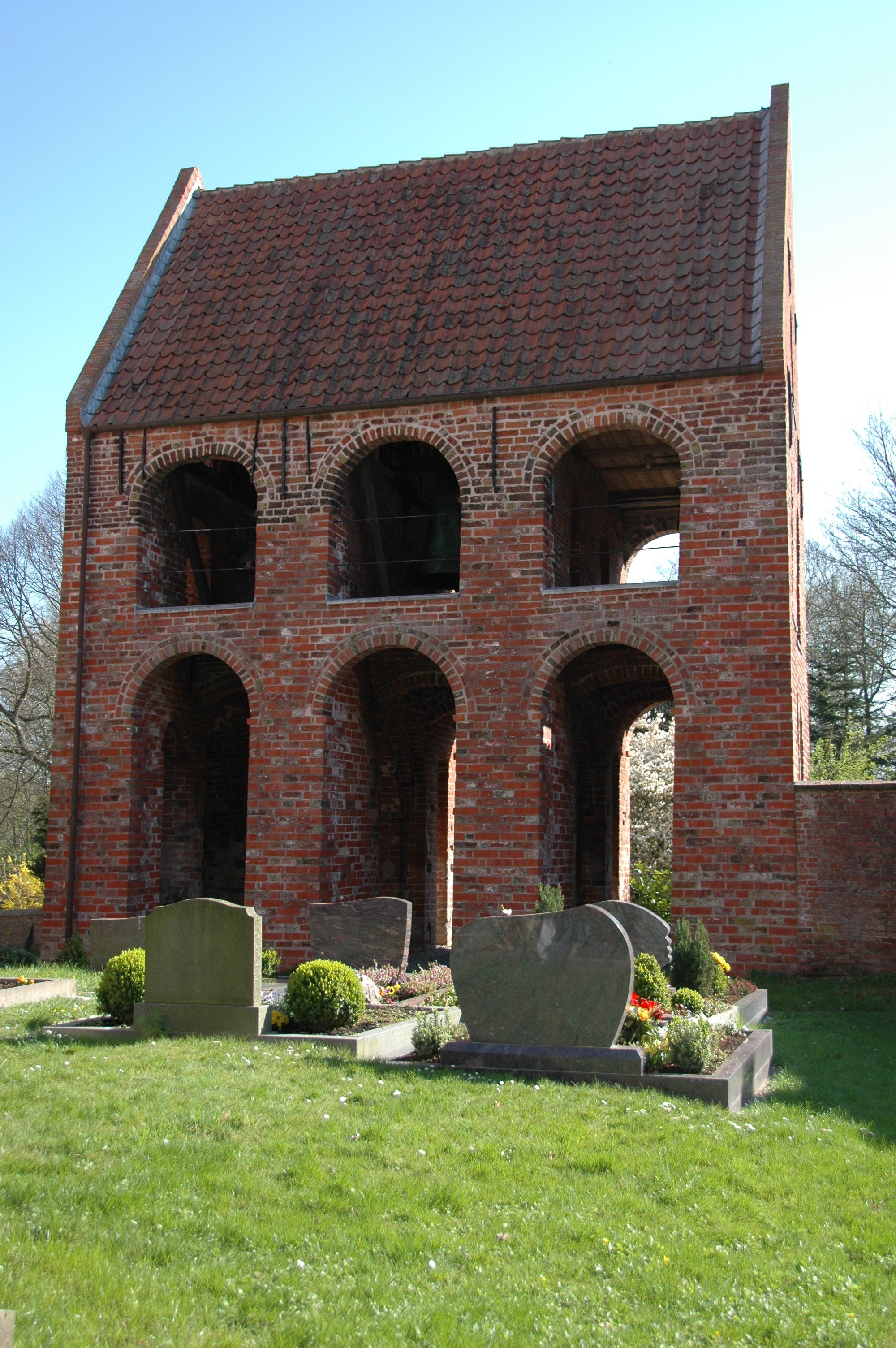 Der Glockenturm der Kirche in Hinte bei Emden. The belfry of the church of Hinte, near Emden, Lower Saxony.